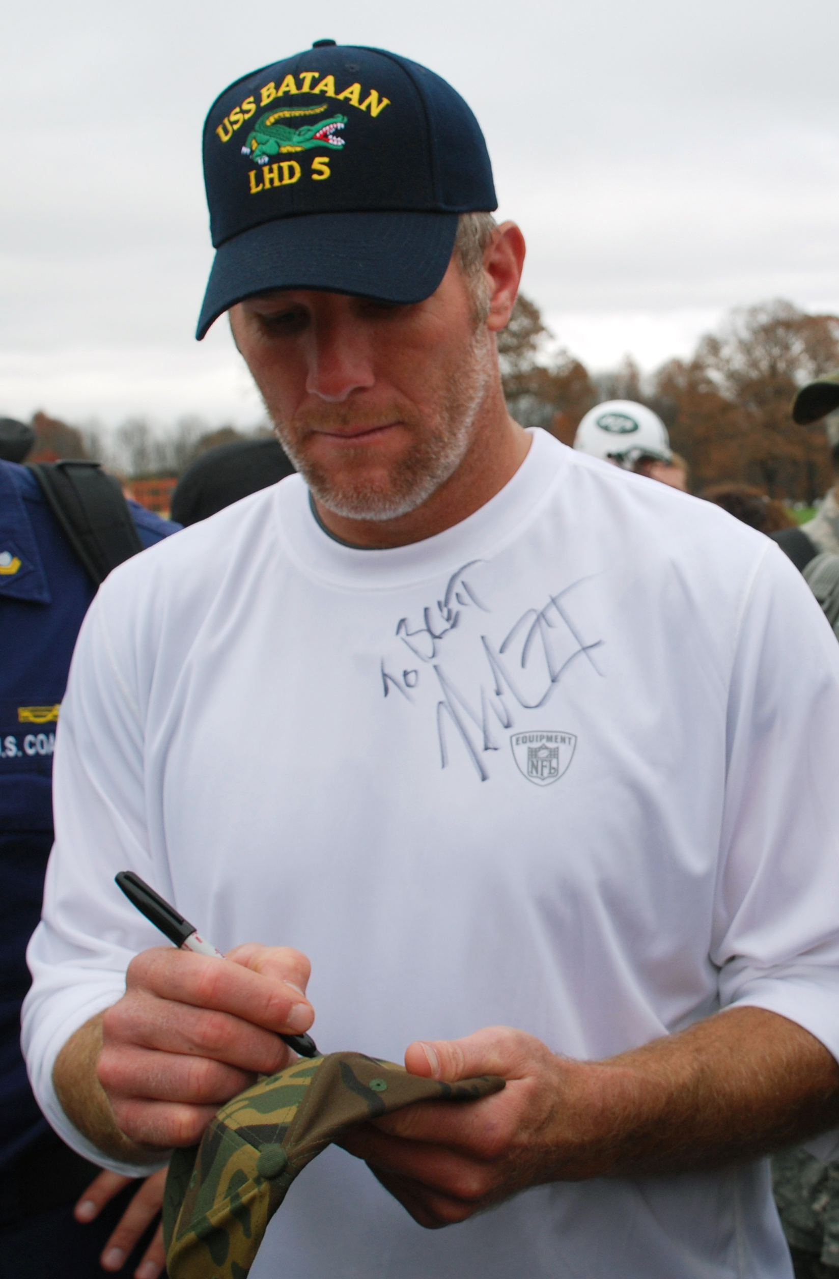 New York Jets quarterback 'Brett Favre takes time after the team's practice in Florham Park to sign an autograph for Storekeeper 1st Class Louis Lopez, a recruiter assigned to Navy Recruiting District New York. The Jets invited service members to the practice as part of their Military Appreciation Weekend.